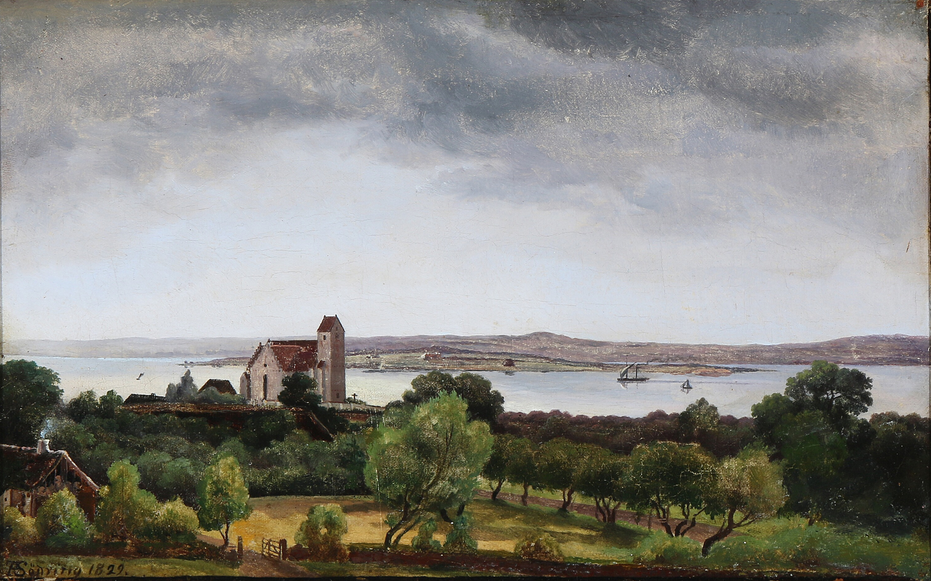 The steamer would be the Caledonia that travelled between Copenhagen and Kiel, passing Kalvehave twice a week.